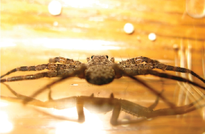 Selenops bifurcatus